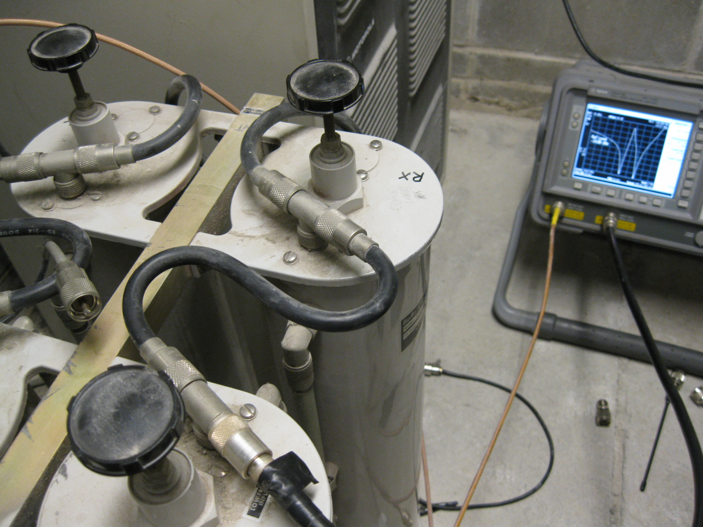 Cavity resonators (left) in a 145 MHz amateur radio repeater. The spectrum analyzer at right shows the sharp resonance curve of the cavity. Cavities are used instead of tuned circuits at high frequencies since at these frequencies the inductance and capacitance values required in a tuned circuit would be very small. They can have high Q_factors, approaching the frequency stability of quartz crystals. Check out that notch...lovely.